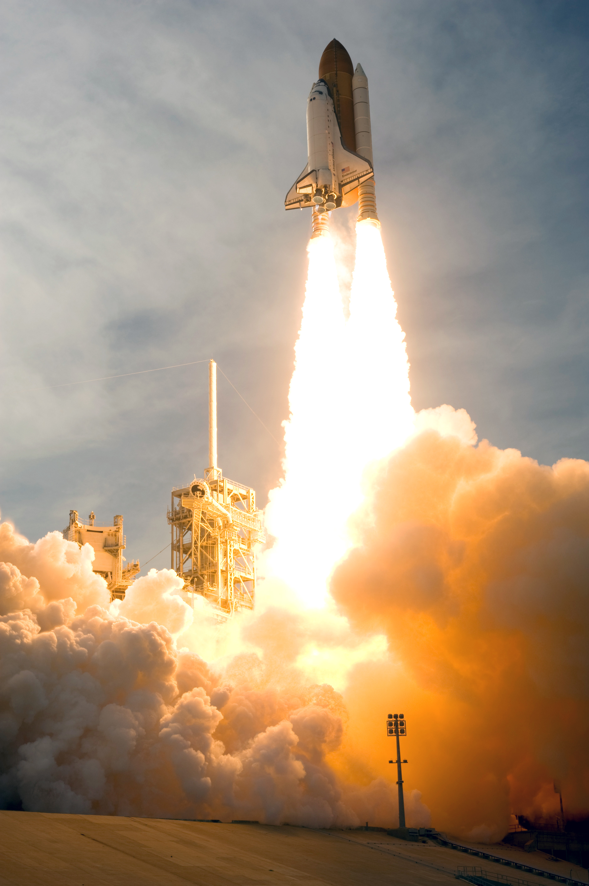 Clouds of smoke and steam fill Launch Pad 39A at NASA's Kennedy Space Center in Florida as space shuttle Endeavour races toward the sky on columns of fire on the STS-127 mission. Liftoff was on-time at 6:03 p.m. EDT. Today was the sixth launch attempt for the STS-127 mission. The launch was scrubbed on June 13 and June 17 when a hydrogen gas leak occurred during tanking due to a misaligned Ground Umbilical Carrier Plate. The mission was postponed July 11, 12 and 13 due to weather conditions near the Shuttle Landing Facility at Kennedy that violated rules for launching, and lightning issues. Endeavour will deliver the Japanese Experiment Module's Exposed Facility and the Experiment Logistics Module-Exposed Section in the final of three flights dedicated to the assembly of the Japan Aerospace Exploration Agency's Kibo laboratory complex on the International Space Station.